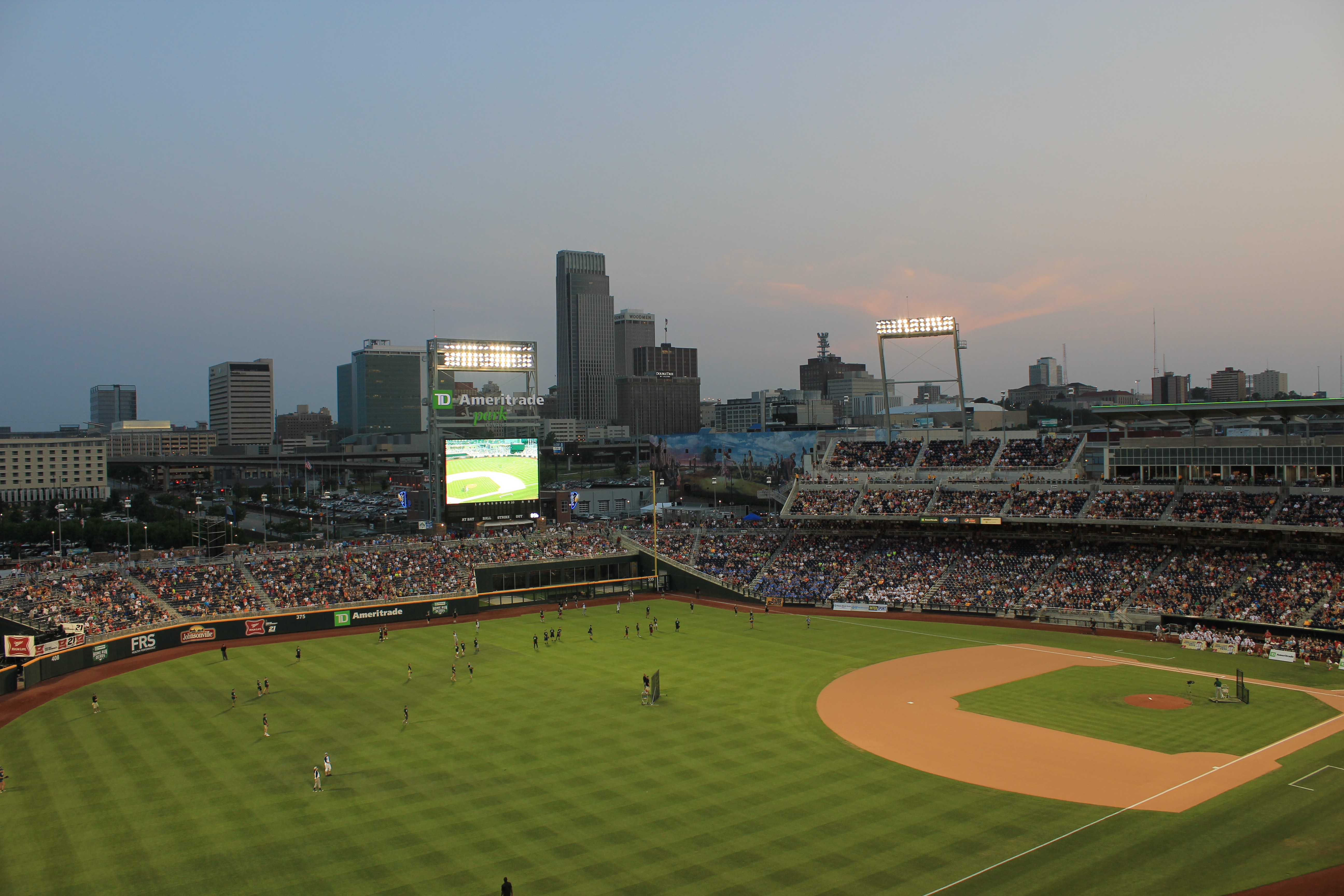 View from 3rd Base Side